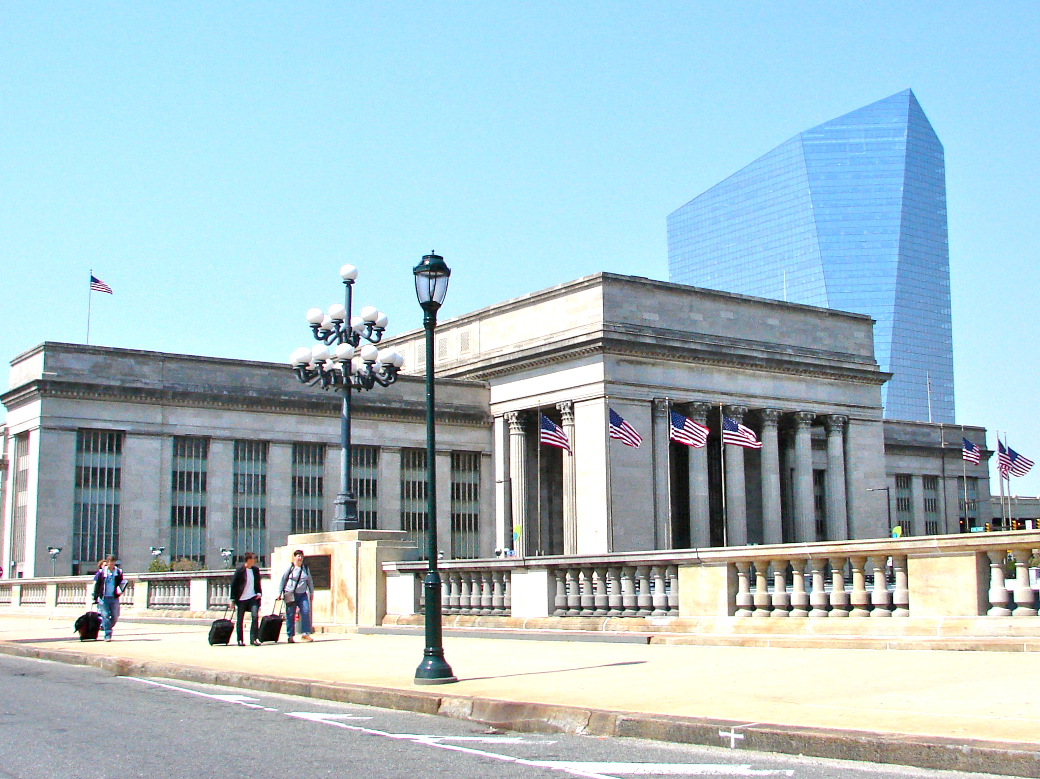 30th Street Station In Philadelphia. Roughly speaking, the center of commuting in Philly, the former center of the Pennsylvania Railroad. Philly's main Amtrak station